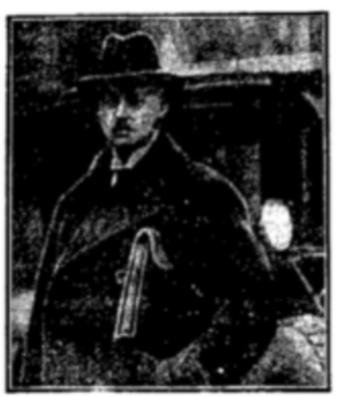 Georg Carl Lahusen (1888-1973), German entrepreneur